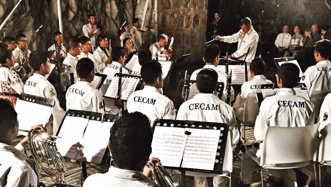 De Murmullos premier in CECAM, 2017